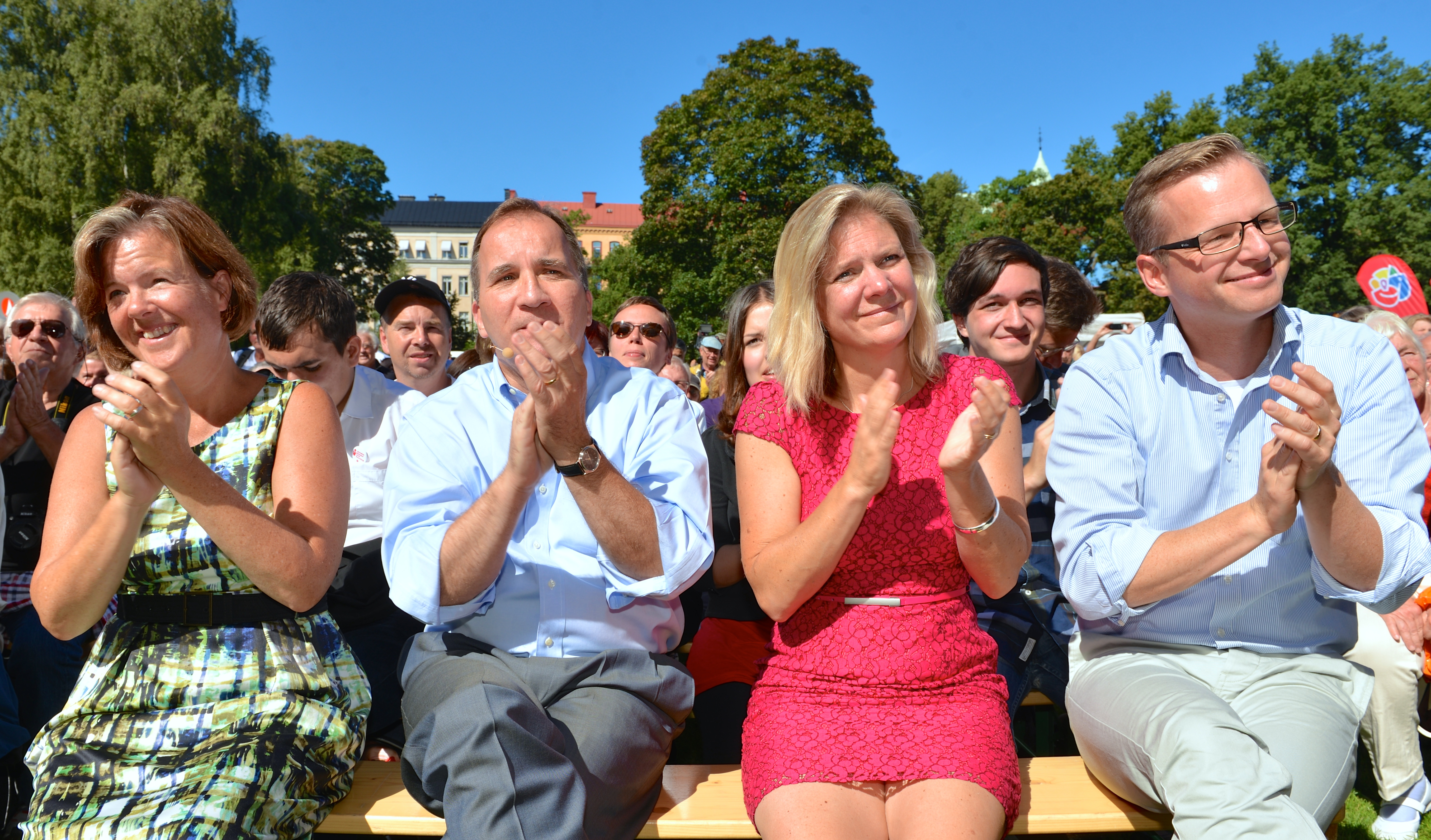 Swedish Social Democratic Party in Vasaparken, Stockholm in 2013. From left: Carin Jämtin, Stefan Löfven, Magdalena Andersson and Mikael Damberg.